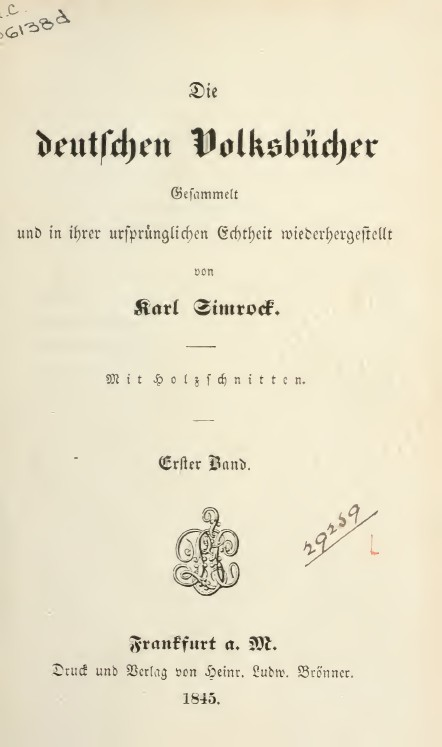 Title page